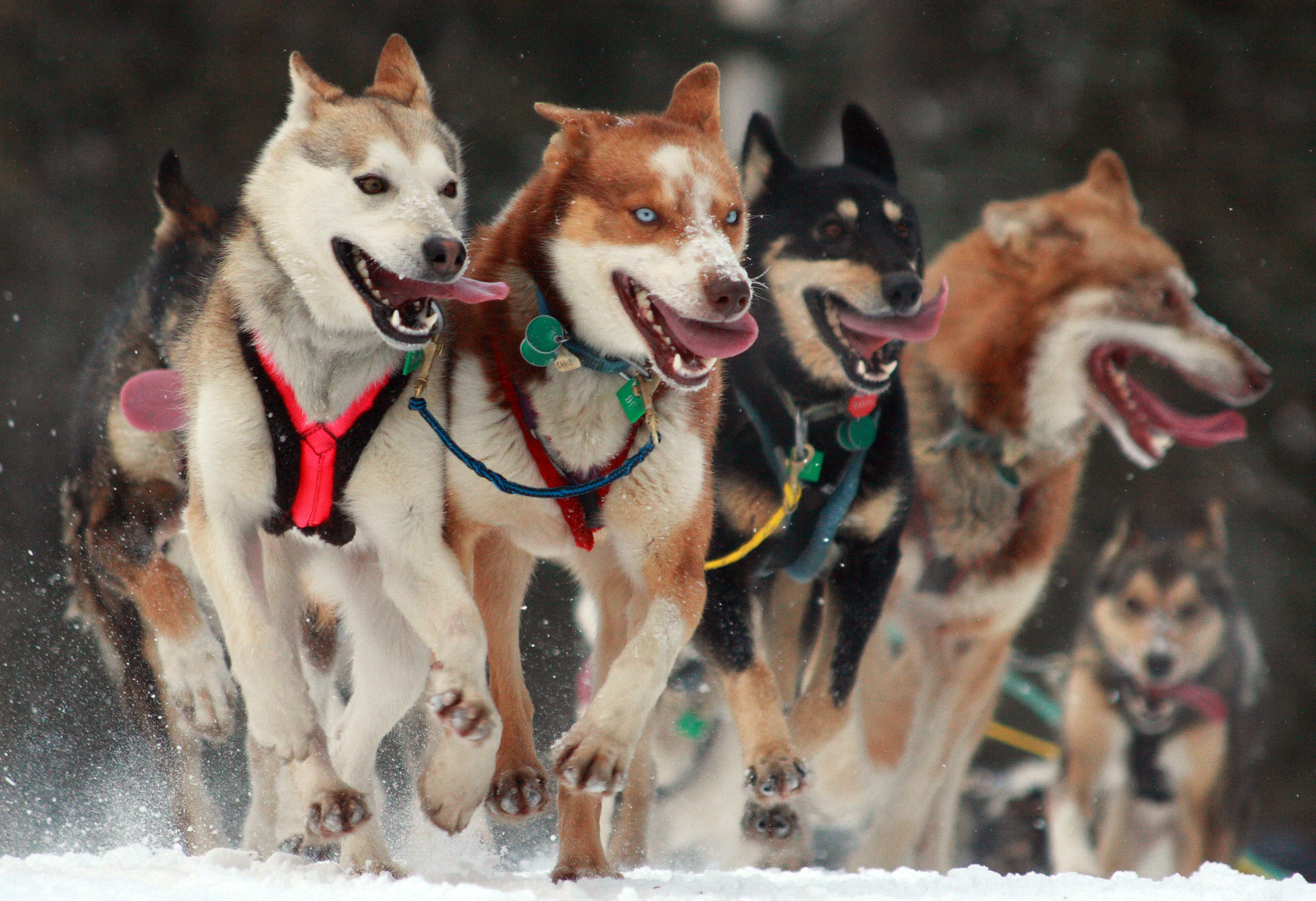 I took these photos on 6 March 2010 at the ceremonial start of the Iditarod dog sled race. The real start is from Willow. The Iditarod is known as "the last great race". It goes 1,100 miles from Willow to Nome through unforgiving terrain and downright nasty weather. I took these photos between Goose Lake and APU. What a great day to be an Alaskan!